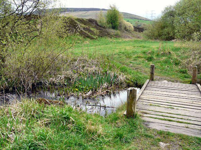 Lower Brushes Valley Part of Stalybridge Country Park.